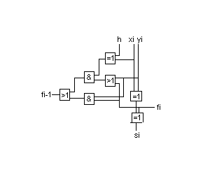 FA/FS-adder cell circuit diagram